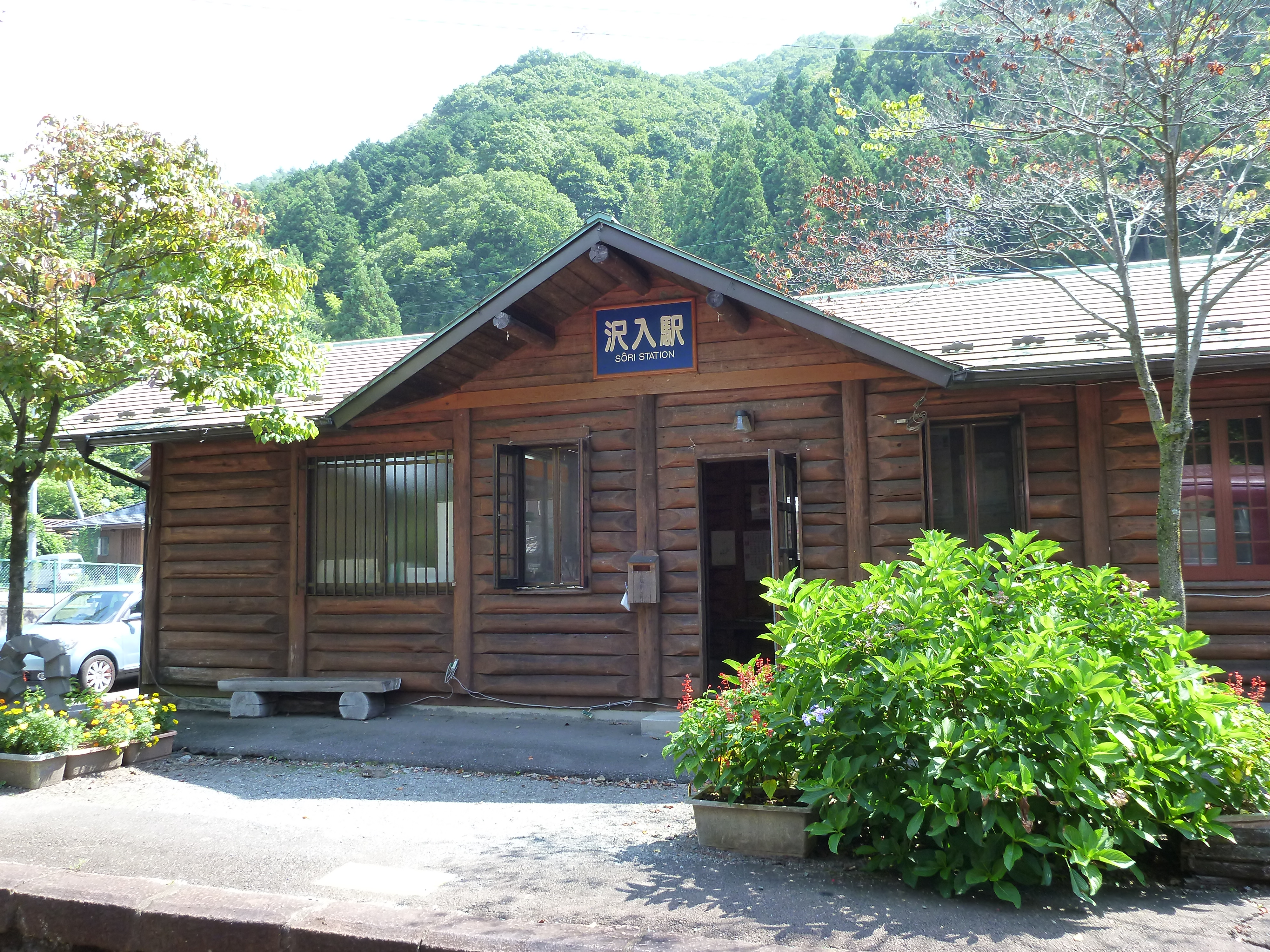 Sōri Station (沢入駅 Sōri-eki) station in Midori, Gunma Prefecture, Japan.